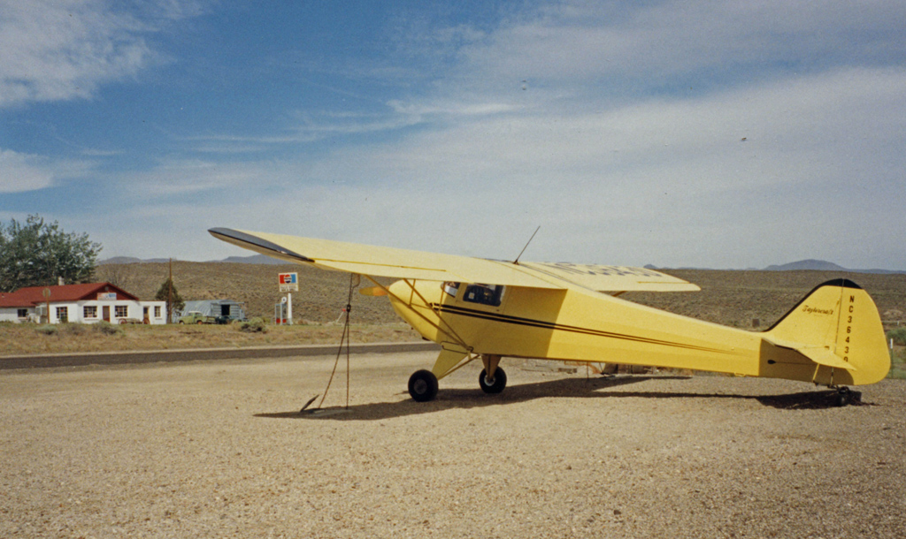 Murphy, Idaho and airport with a resident 1941-built Taylorcraft BC-12 aircraft.